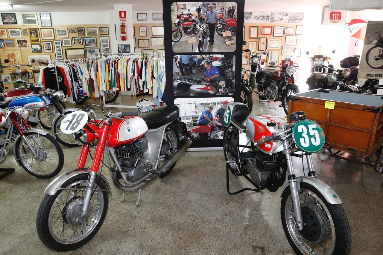 OSSA Motorcycles in the Museu Isern de la Moto